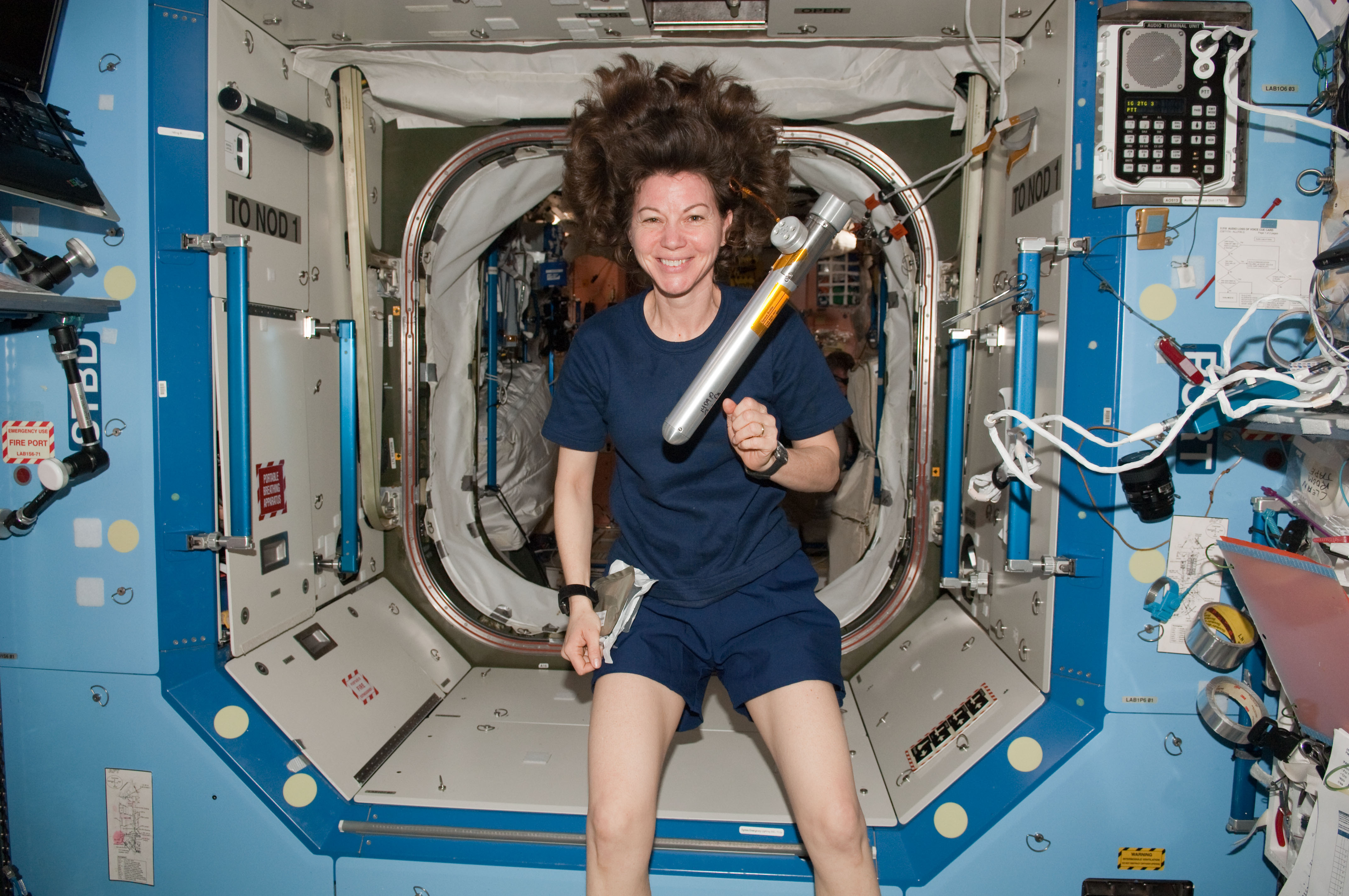 NASA astronaut Cady Coleman, Expedition 26 flight engineer, is pictured near a Japanese-designed metal cylinder floating freely in the Destiny laboratory of the International Space Station while space shuttle Discovery remains docked with the station. On Feb. 28, spacewalkers Steve Bowen and Alvin Drew opened and 'filled' the cylinder, named "Message in a Bottle", with space, or rather the vacuum of outer space, and then sealed it to be brought back to Earth with the Discovery crew (STS-133).